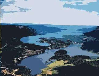 Permission by Profero Grafisk